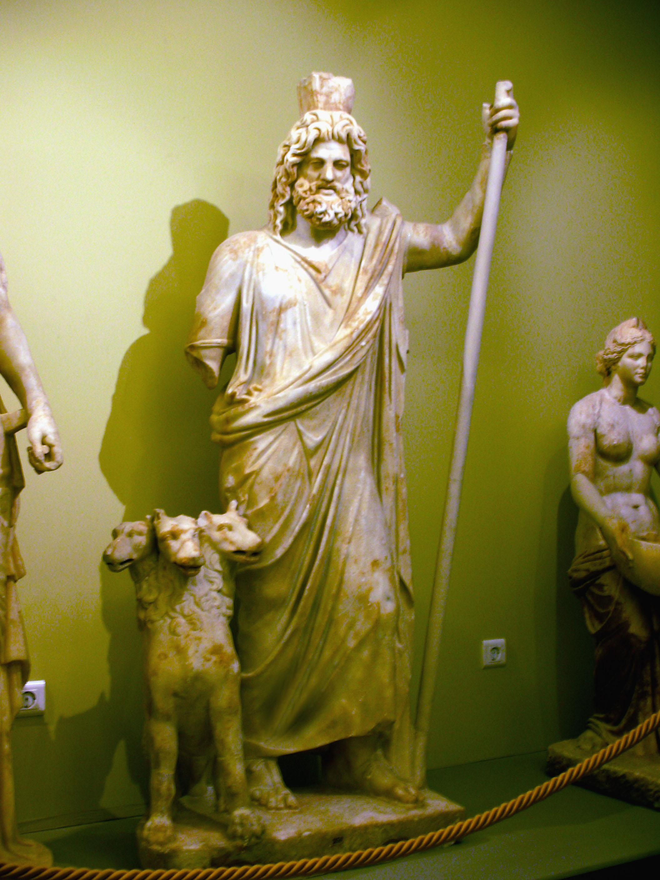 Hades & Cerberus in museum of Archeology in Crete